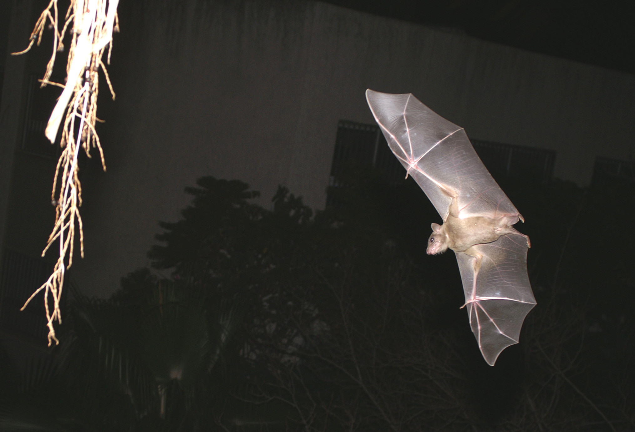 Wildlife and Plants of Israel